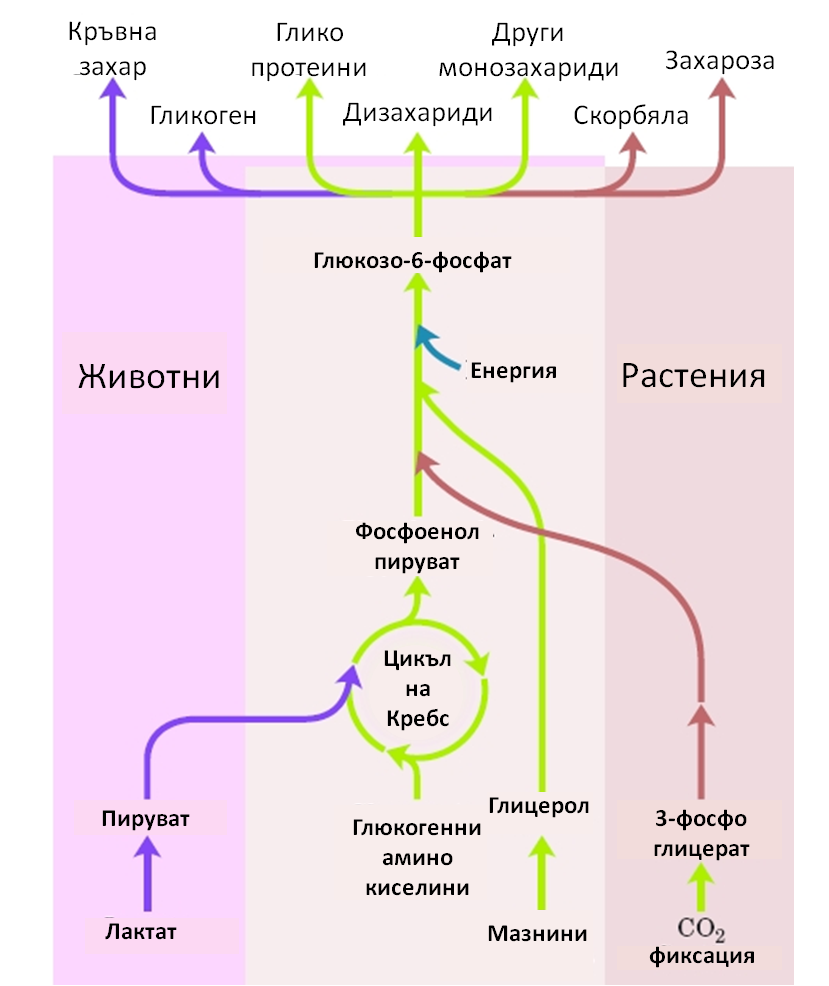 Scheme of carbohydrate anabolism